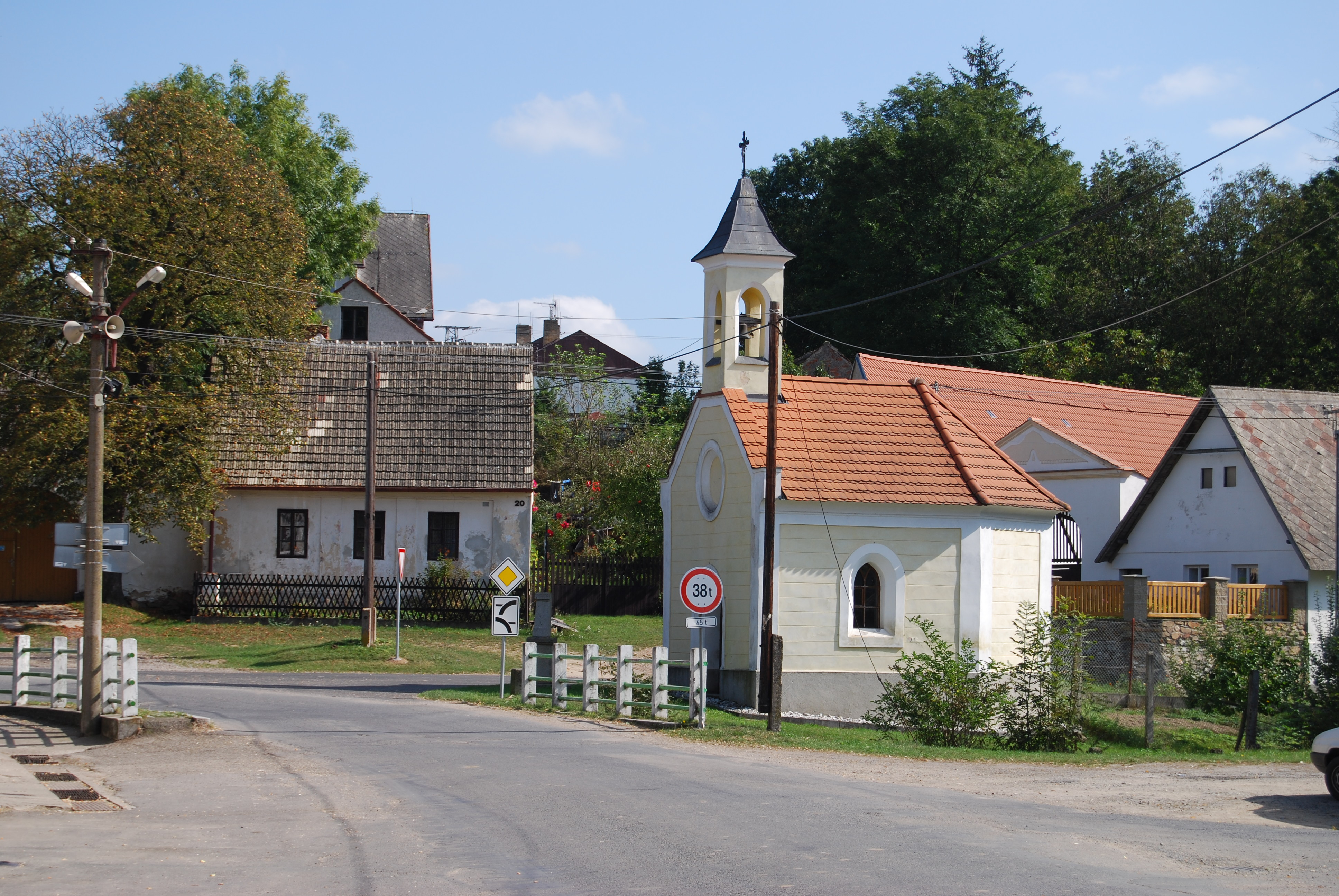 Škvořetice village in Písek District, Czech Republic.